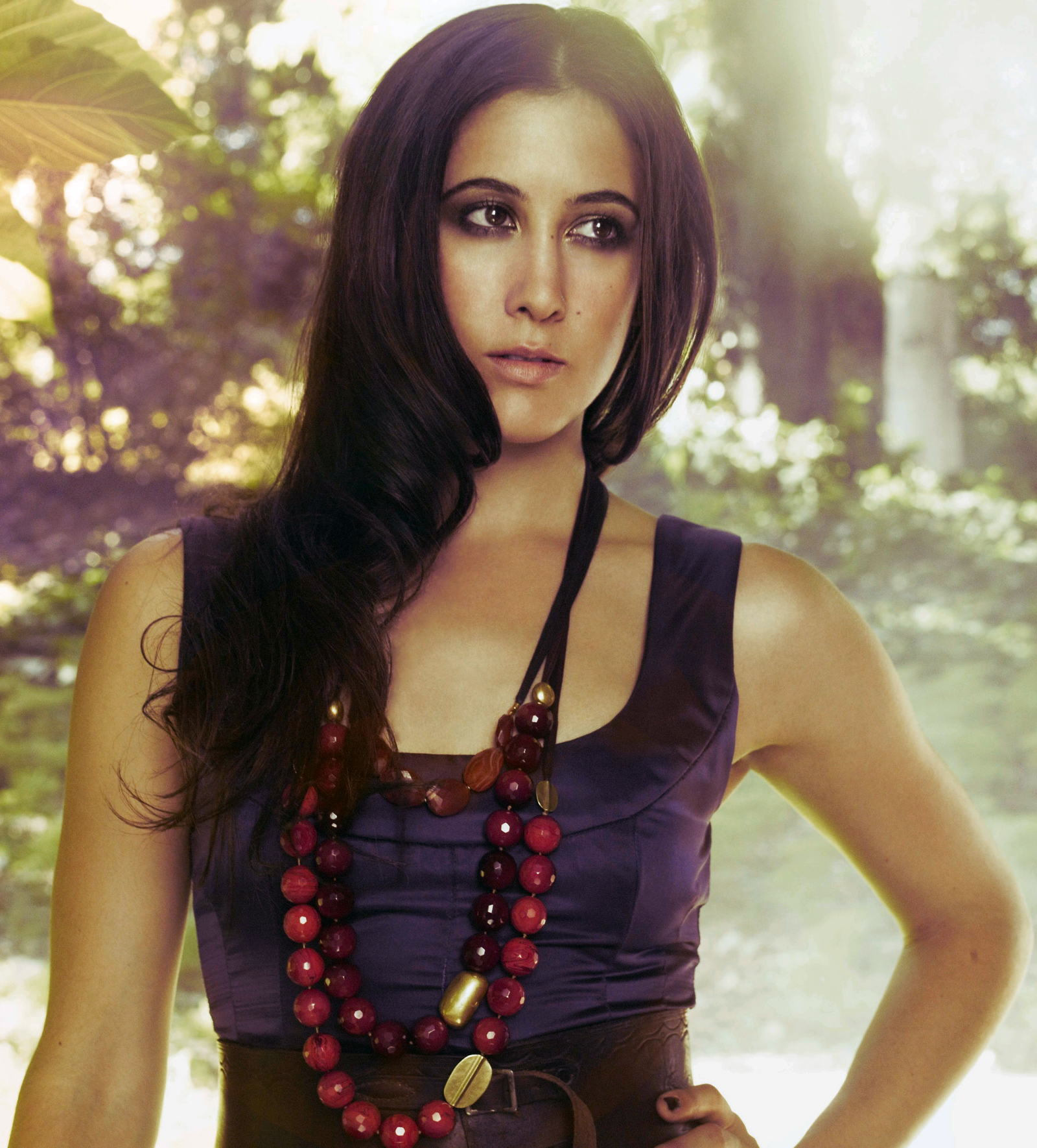 Vanessa Carlton, promotional photo.